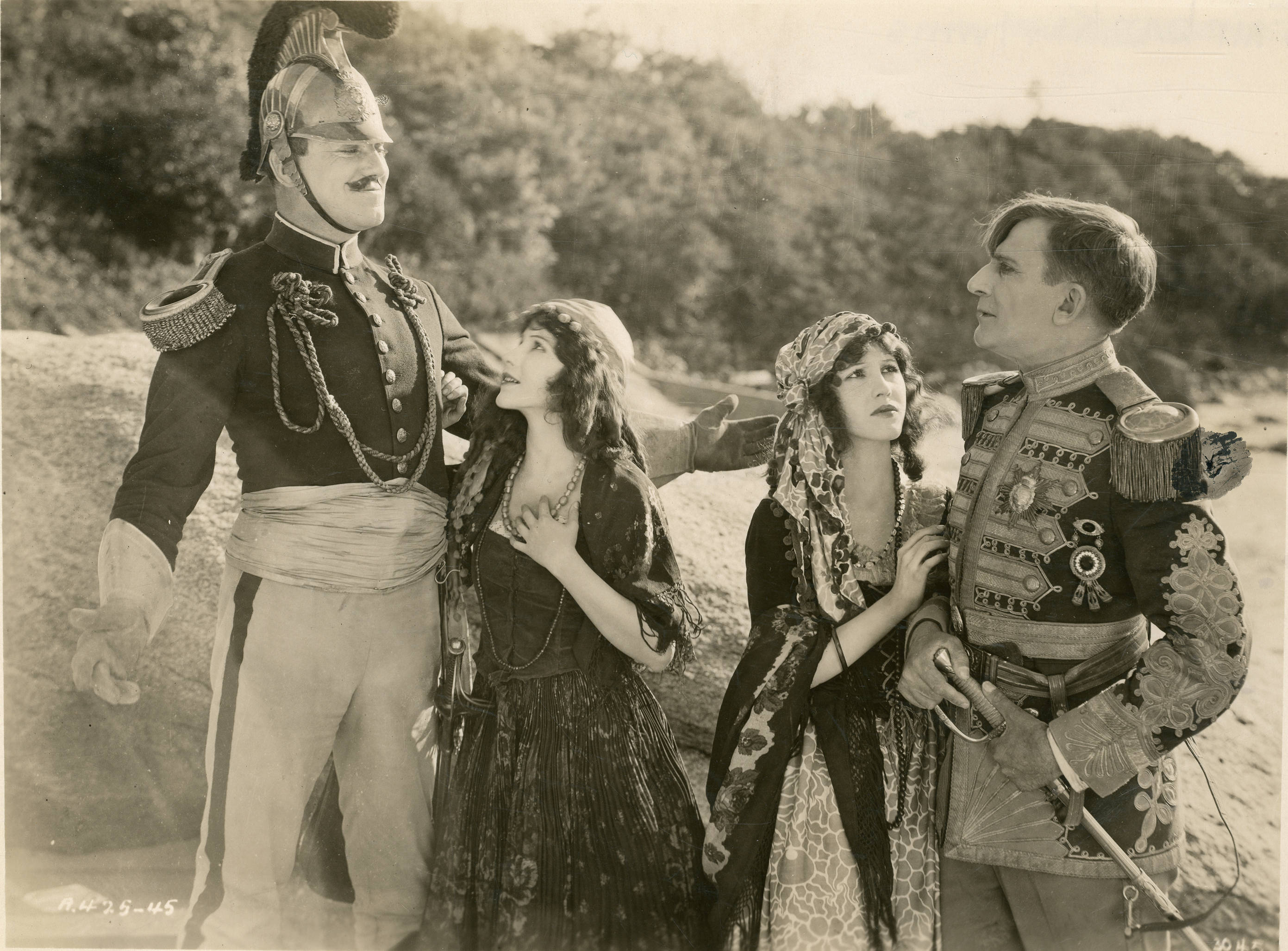 Still from the American film The Beauty Shop (1922). Subjects: motion pictures, actors, entertainers